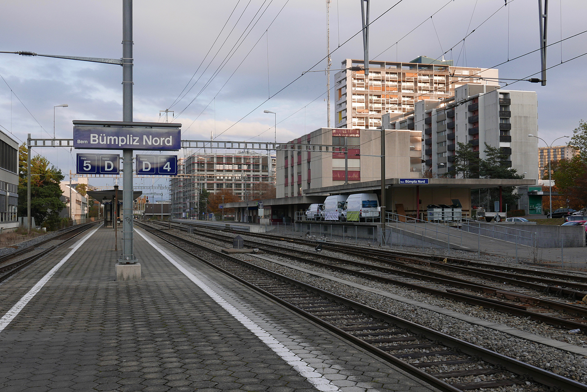 Bern Bümpliz Nord railway station.